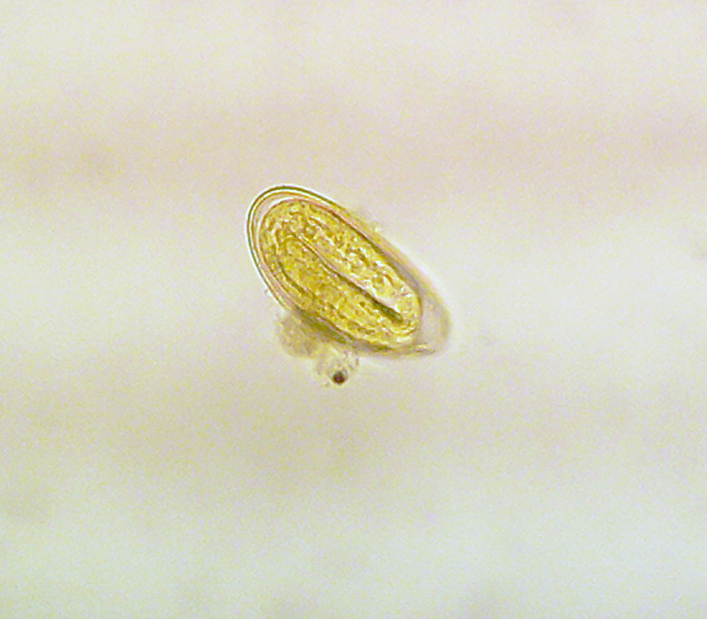 egg of Enterobius vermicularis